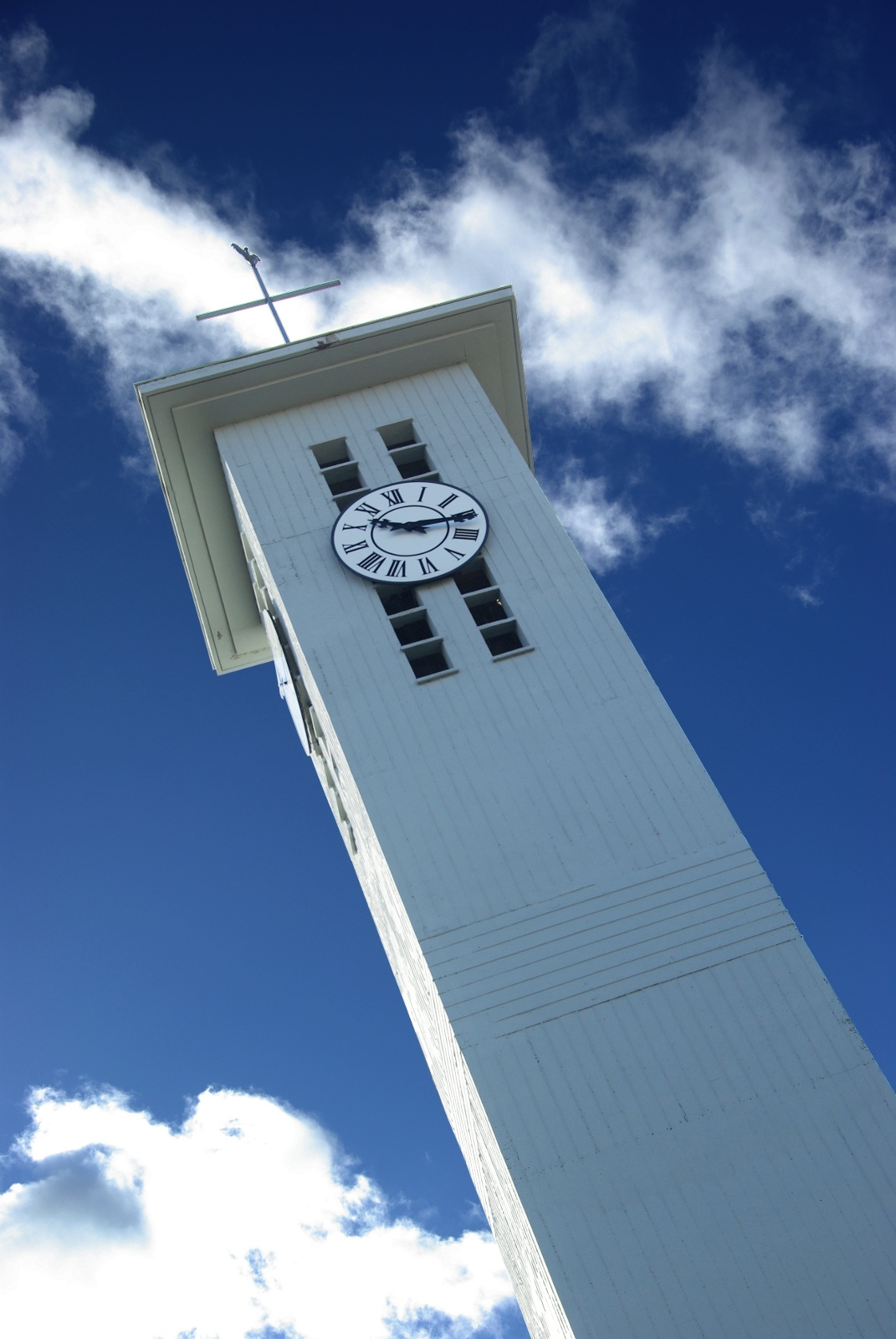 Scheibenhard church tower